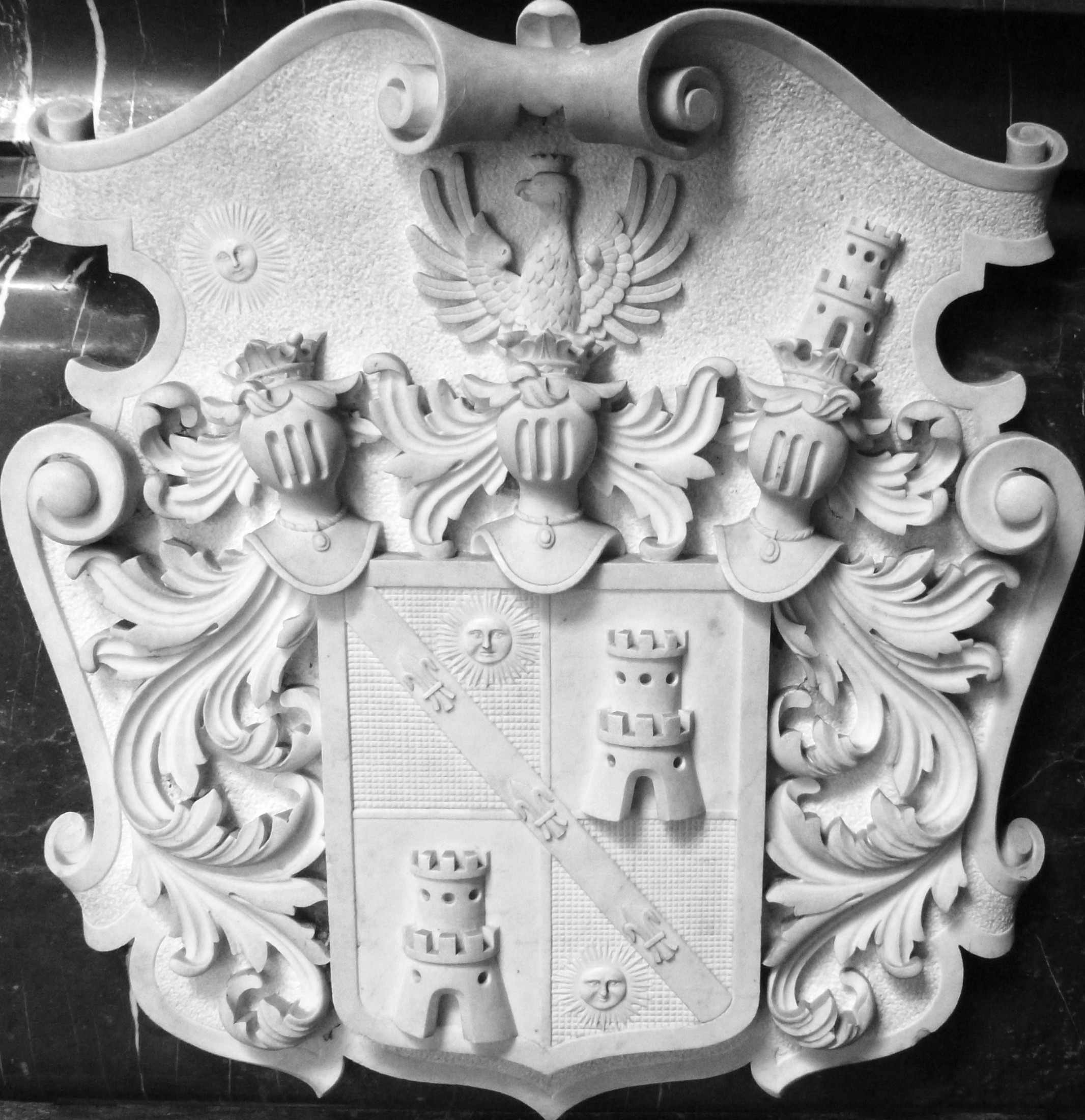 Coat of arms of Vilmos Migazzi. Coffin in mausoleum in Zlaté Moravce.